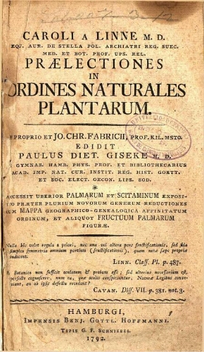 Cover page of Gieske's edition of Linnaeus' Praelectiones in ordines naturales plantarum